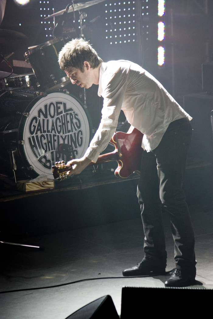 Noel Gallagher and the High Flying Birds on stage at Razzmatazz, Barcelona, Spain.